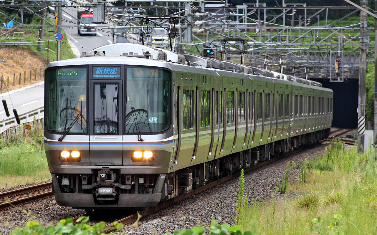 JR West 223 series EMU, at Ogoto-onsen Sta.